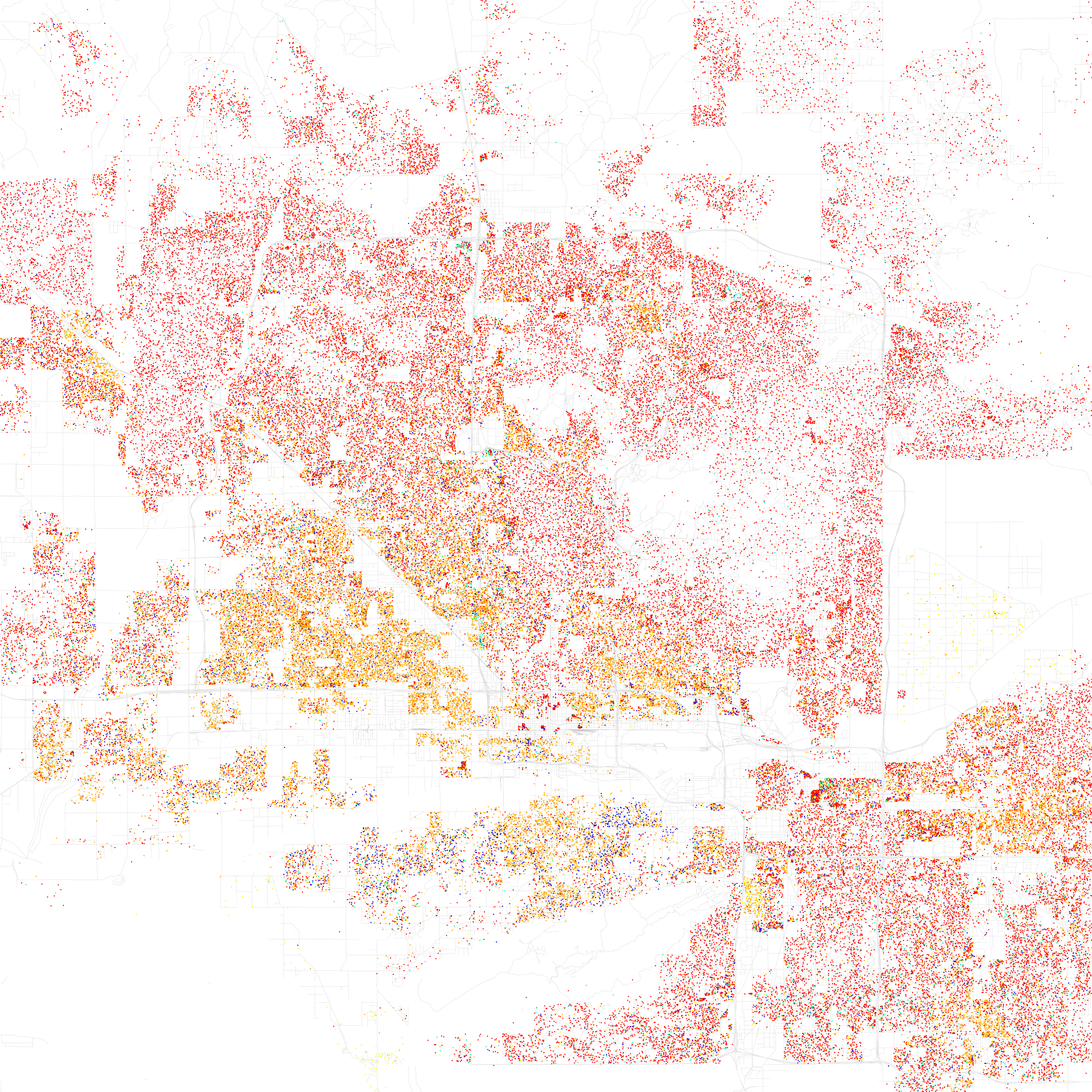 Maps of racial and ethnic divisions in US cities, inspired by Bill Rankin's map of Chicago, updated for Census 2010. Red is White, Blue is Black, Green is Asian, Orange is Hispanic, Yellow is Other, and each dot is 25 residents. Data from Census 2010. Base map © OpenStreetMap, CC-BY-SA